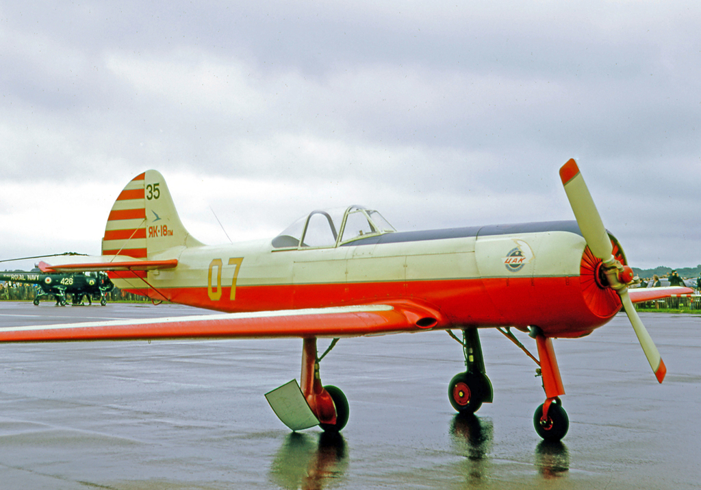 Ykovlev Yak-18PM aerobatic aircraft '07' of the Soviet Air Force in 1970